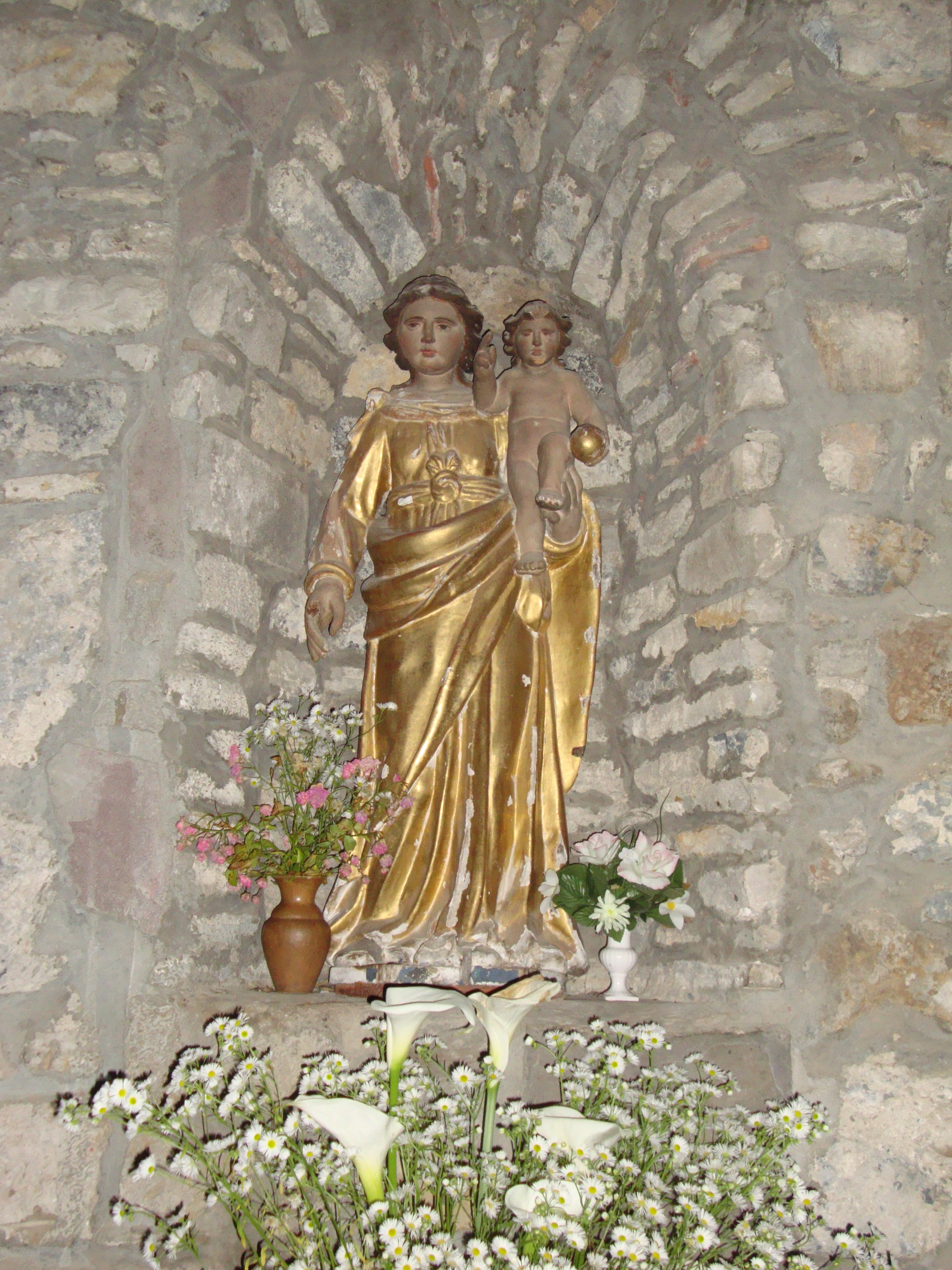 Montory (Pyrénées-Atlantiques, Fr) Statue Vierge et Enfant